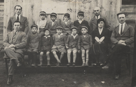 The Tarbut Hebrew school in Wizna during the 1930's